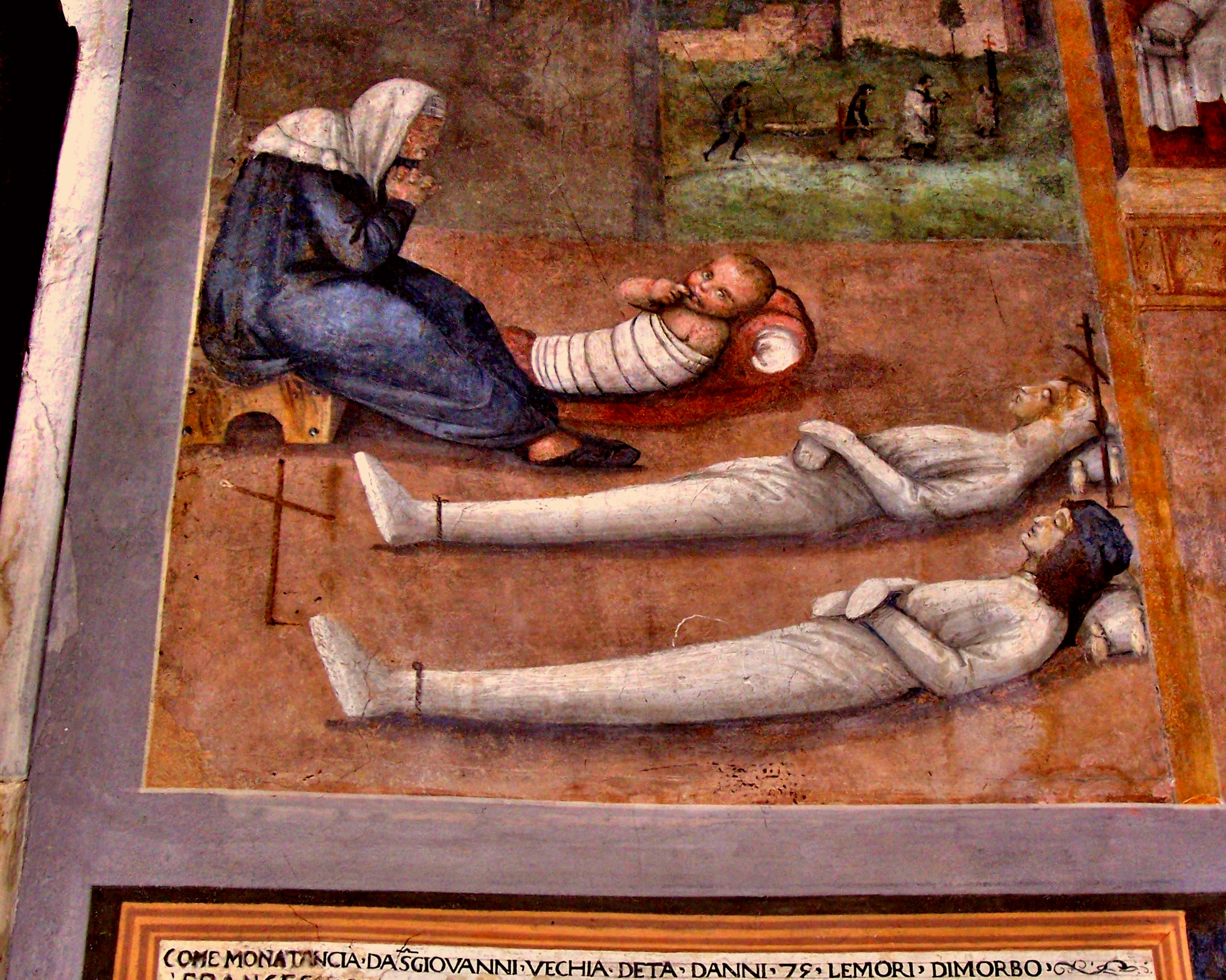 The Miracle of Monna Tancia by Roberto or Luberto from Montevarchi. 15th century fresco in Santa Maria delle Grazie Church at San Giovanni Valdarno